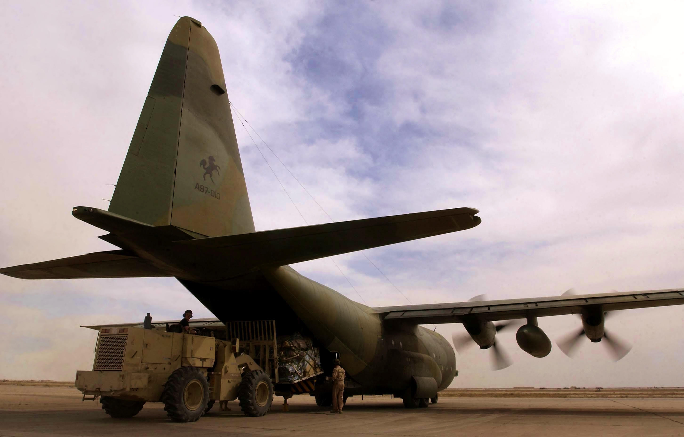 A member from the 621st Air Mobility Group Tanker Airlift Control Element unloads an Australian C-130 April 18, 2003 at Tallil Air Base, Iraq during Operation Iraqi Freedom. The Australians are donating medical supplies to distribute to the Iraqi people.